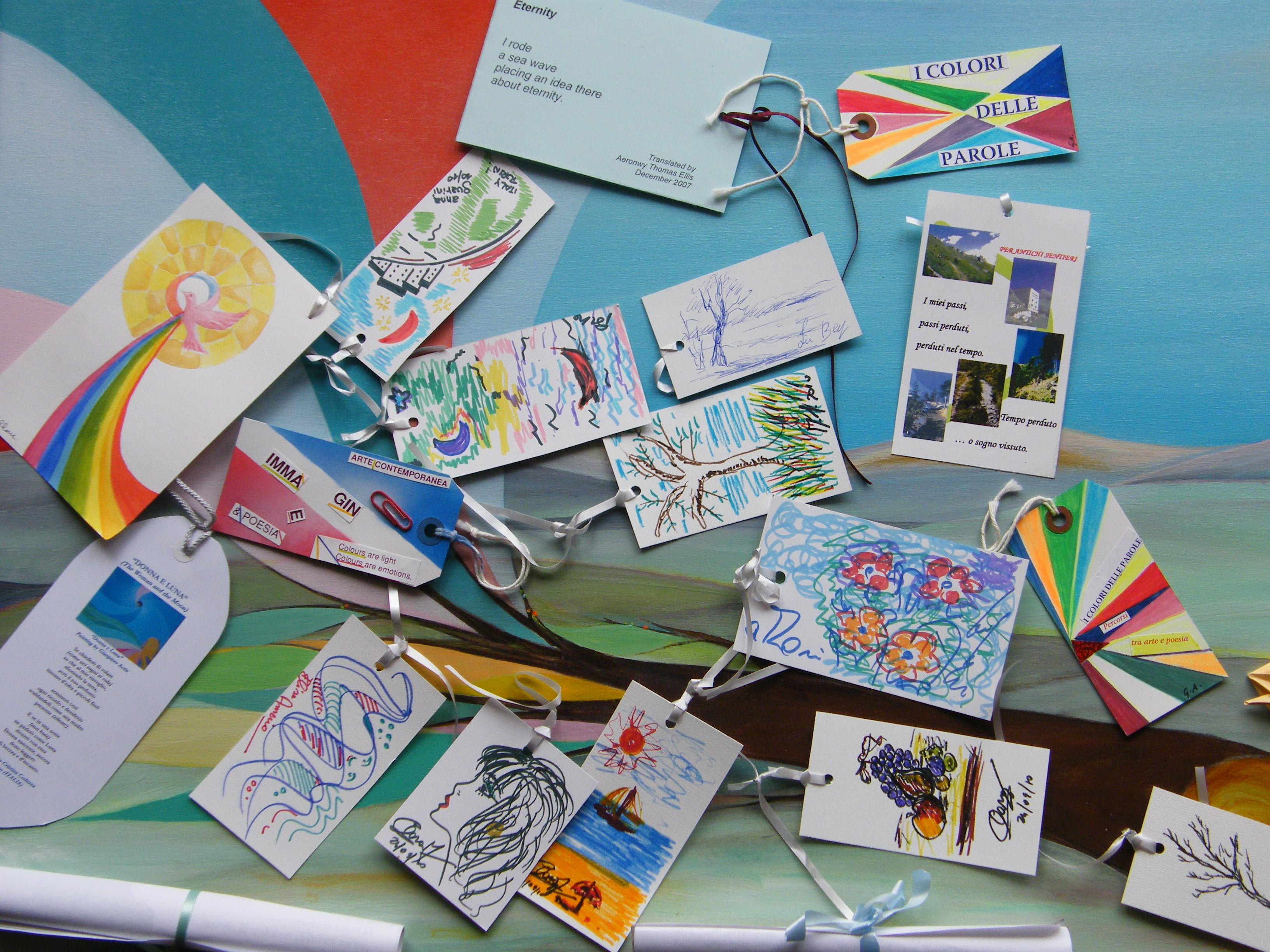 Cards and poems made for Yoko Ono's Wish Tree and sent to Hirshhorn Museum and Sculpture Garden (Washington) November 2010